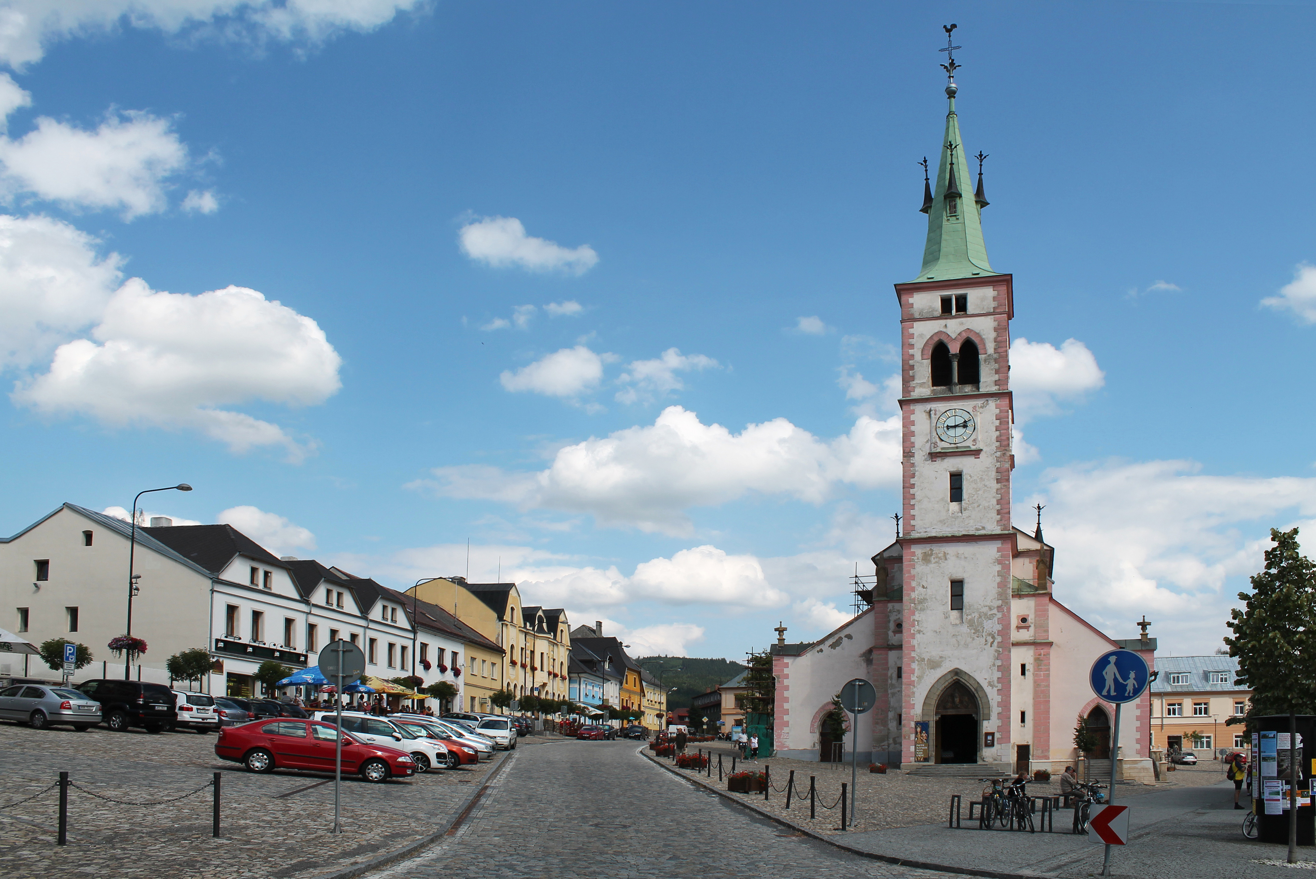 Church of Saint Margaret, Kašperské Hory, Klatovy District, Czech Republic